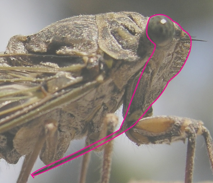 Head of Cicada